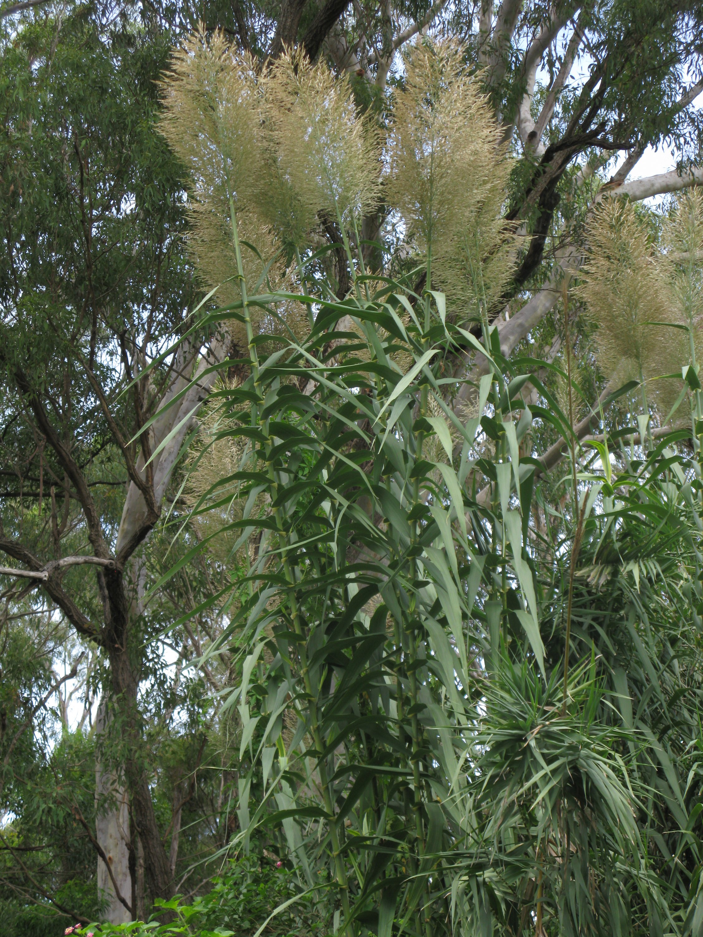 Leaves are evenly spread in 2 rows along thick cane-like stems and remain green over winter.